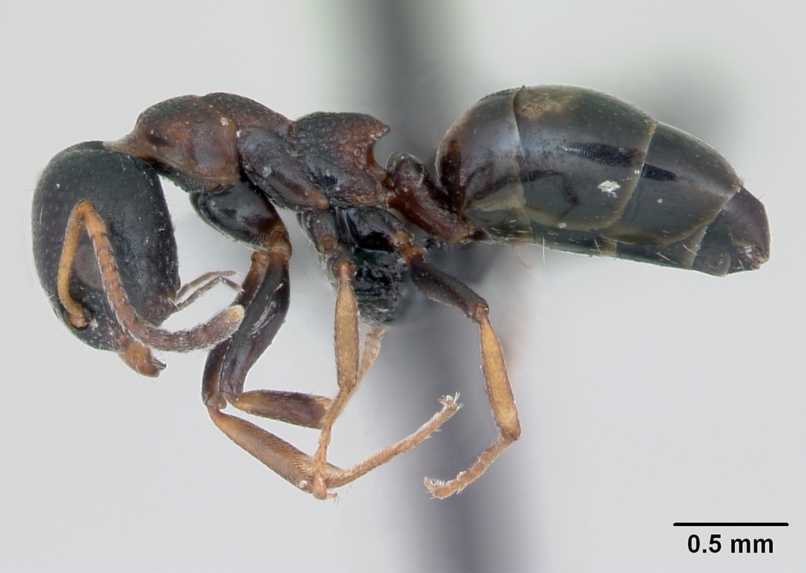 Profile view of ant Dolichoderus quadripunctatus specimen casent0173127.